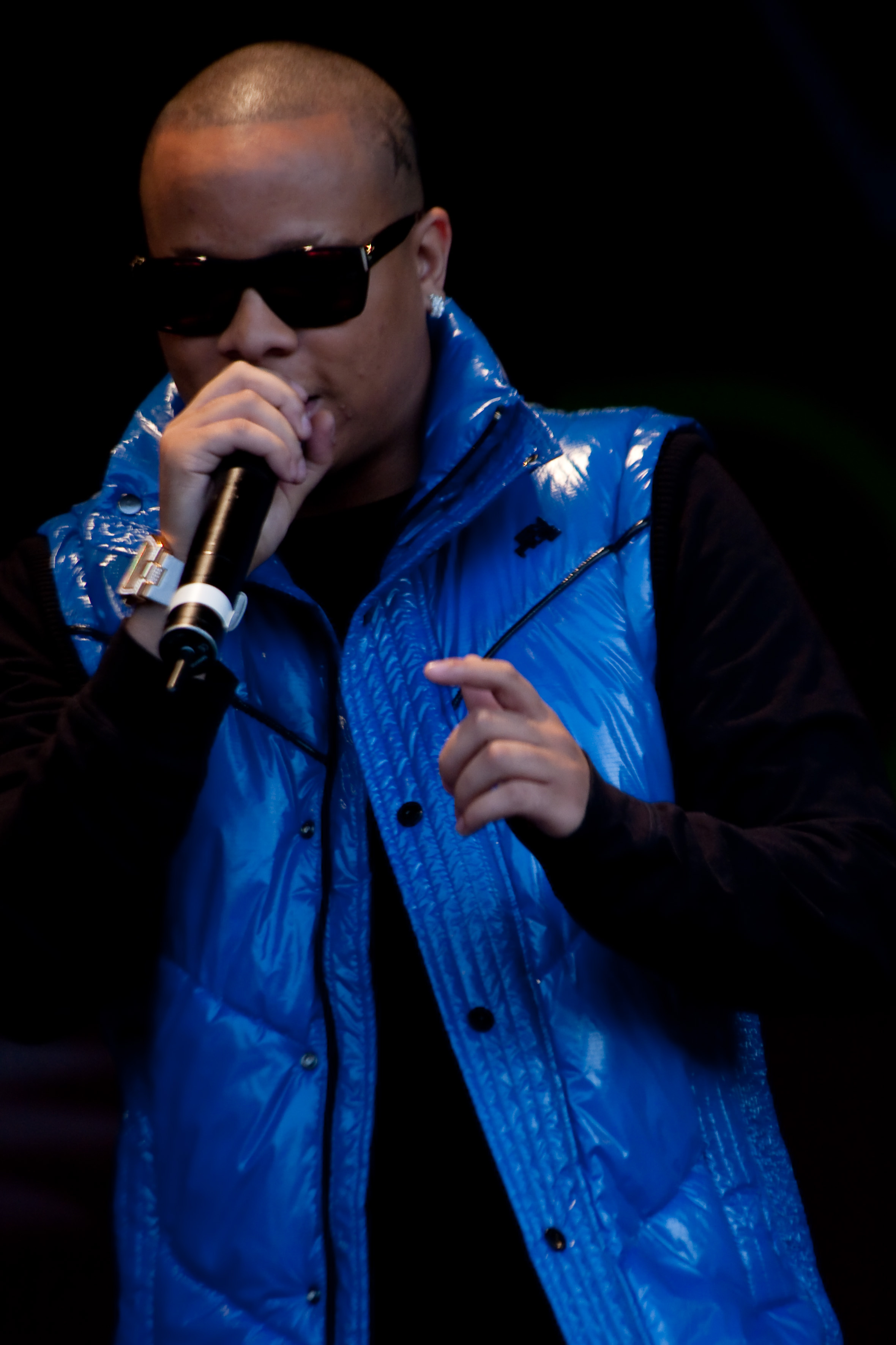 DJ Ironik, British musician, on stage at the London Week of Peace Concert, Trafalgar Square.